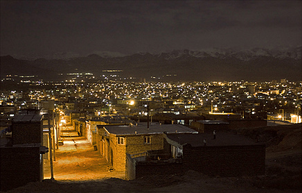 Marand, Azarbayjan-e Sharqi, Iran a cold Winter night....نصف شب يك زمستان سرد